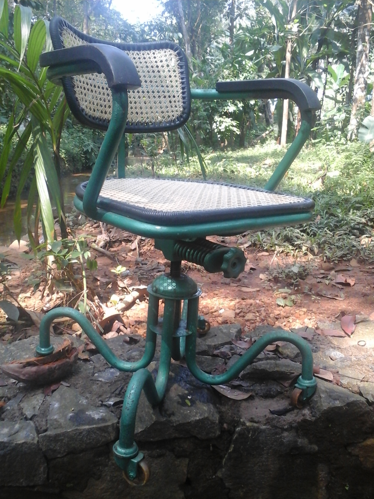 An old revolving office chair, kept for dumping.